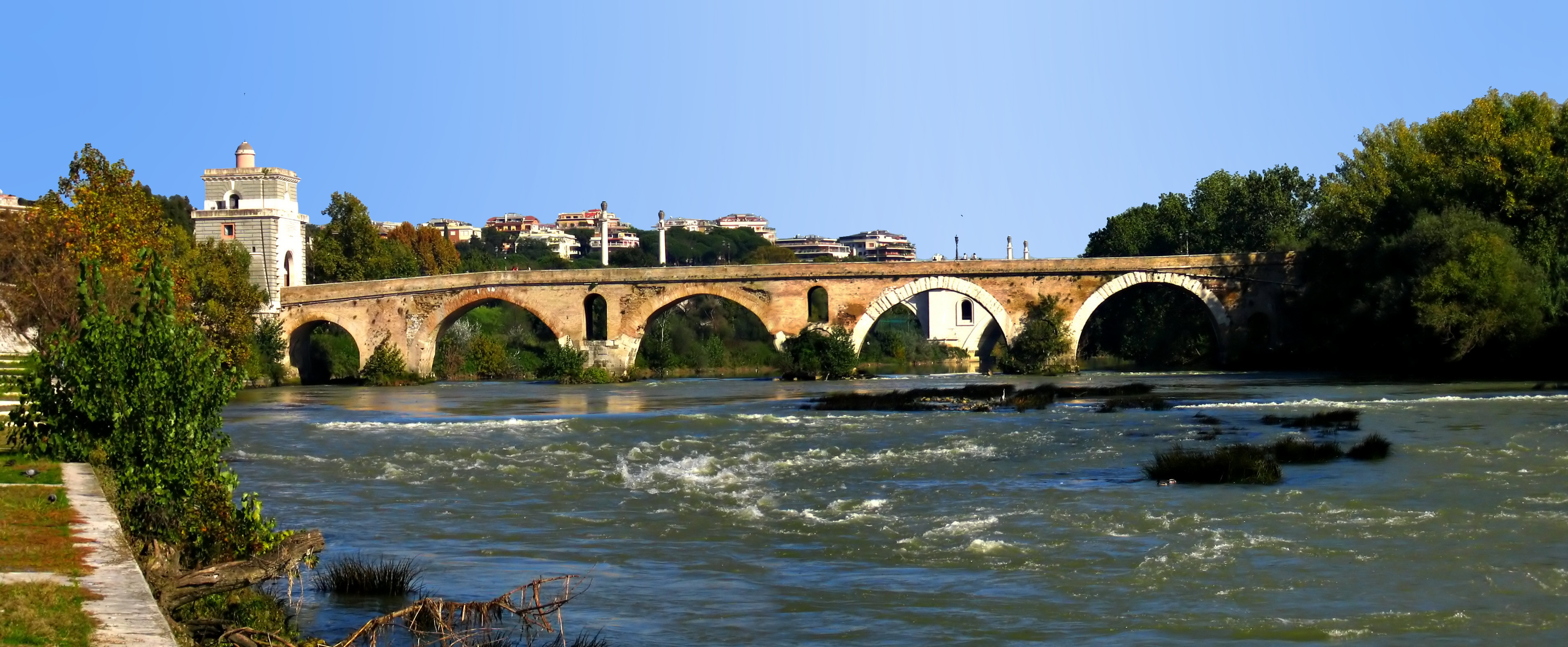 Side view of Ponte Milvio, Rome.